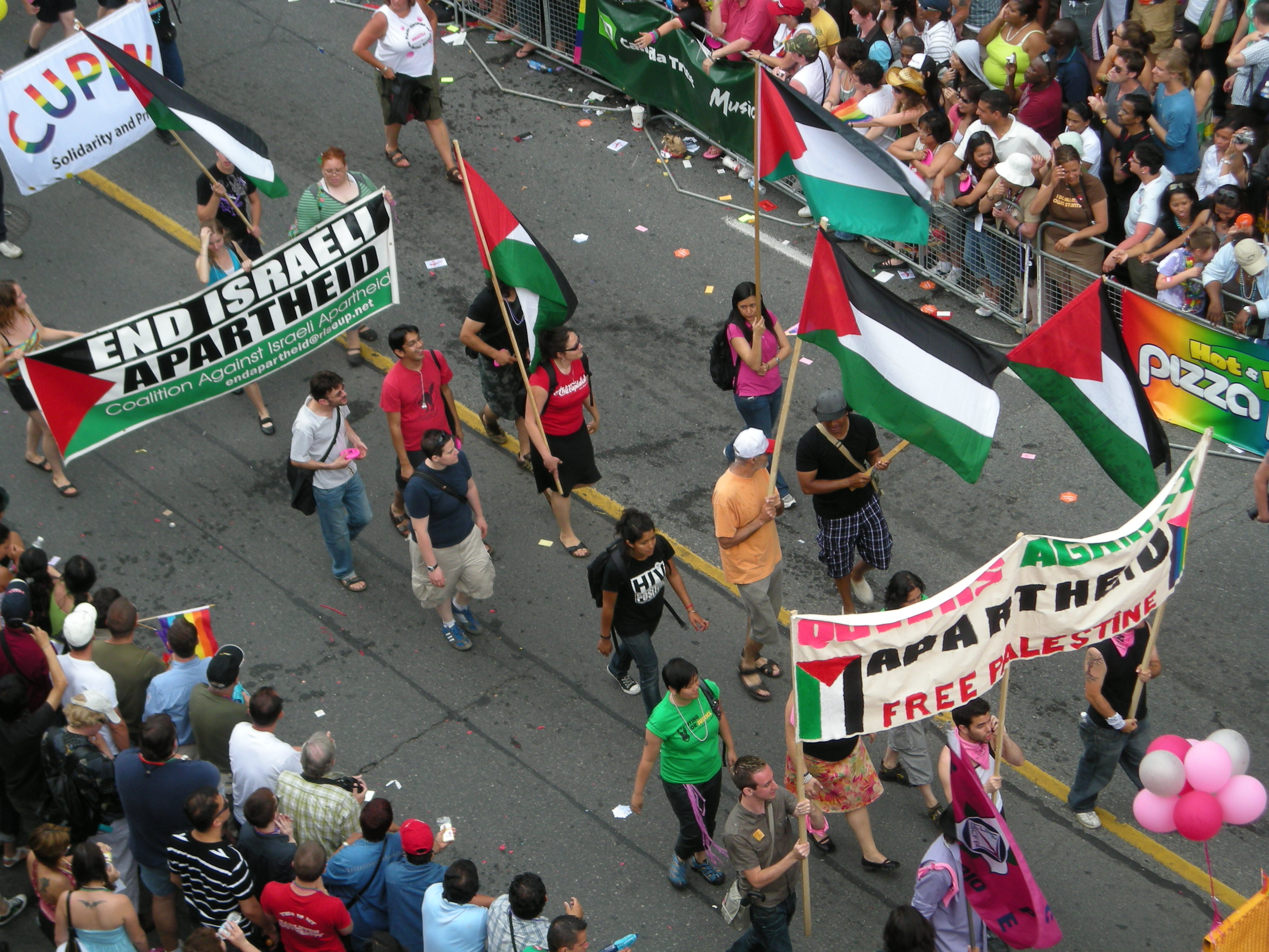 Queers Against Israeli Apartheid contingent during the 2008 Toronto Pride Parade